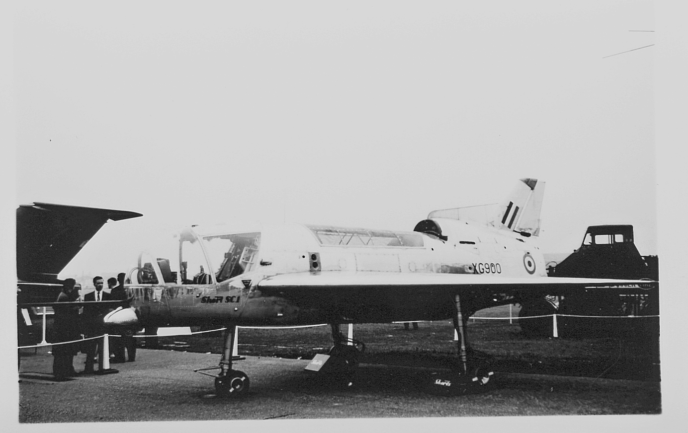 The first Short SC.1 vertical take-off aircraft, XG900 at the 1958 SBAC show at Farnborough